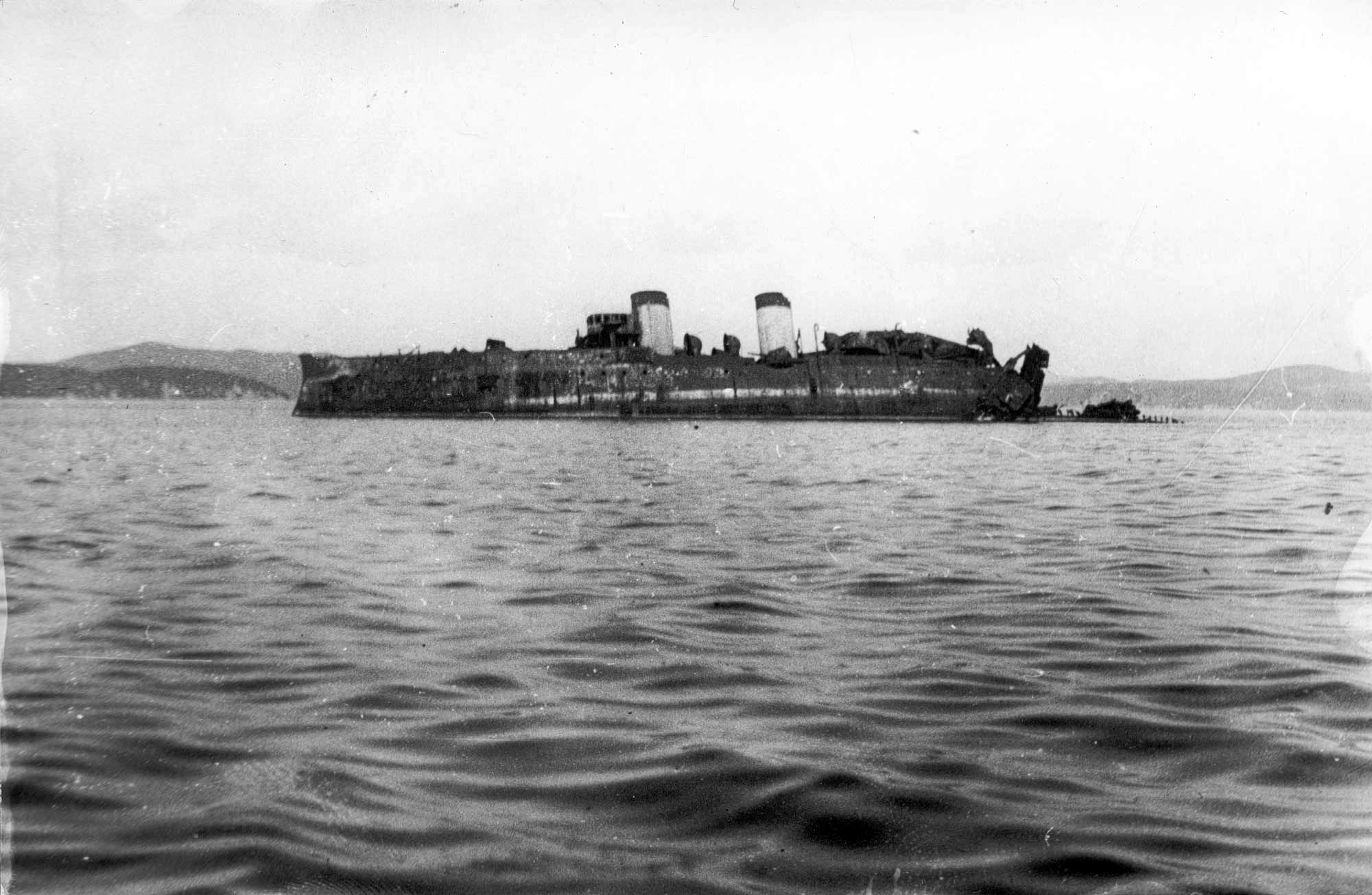 The Imperial Russian cruiser Izumrud.